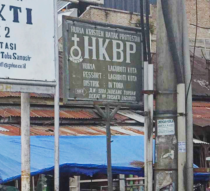 HKBP Laguboti Kota, Res. Laguboti Kota church in Laguboti, Toba Samosir